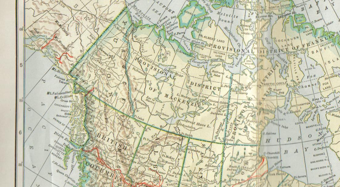 Velocicaptor w:1902 map of Provisional District of Mackenzie which appeared in New International Encyclopedia